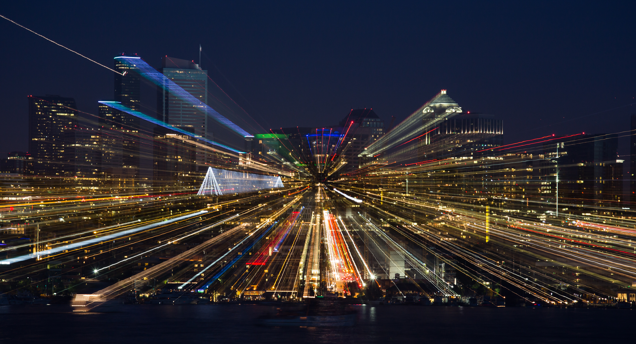 Downtown Seattle from Gas Works Park, zoom adjustment during long exposure